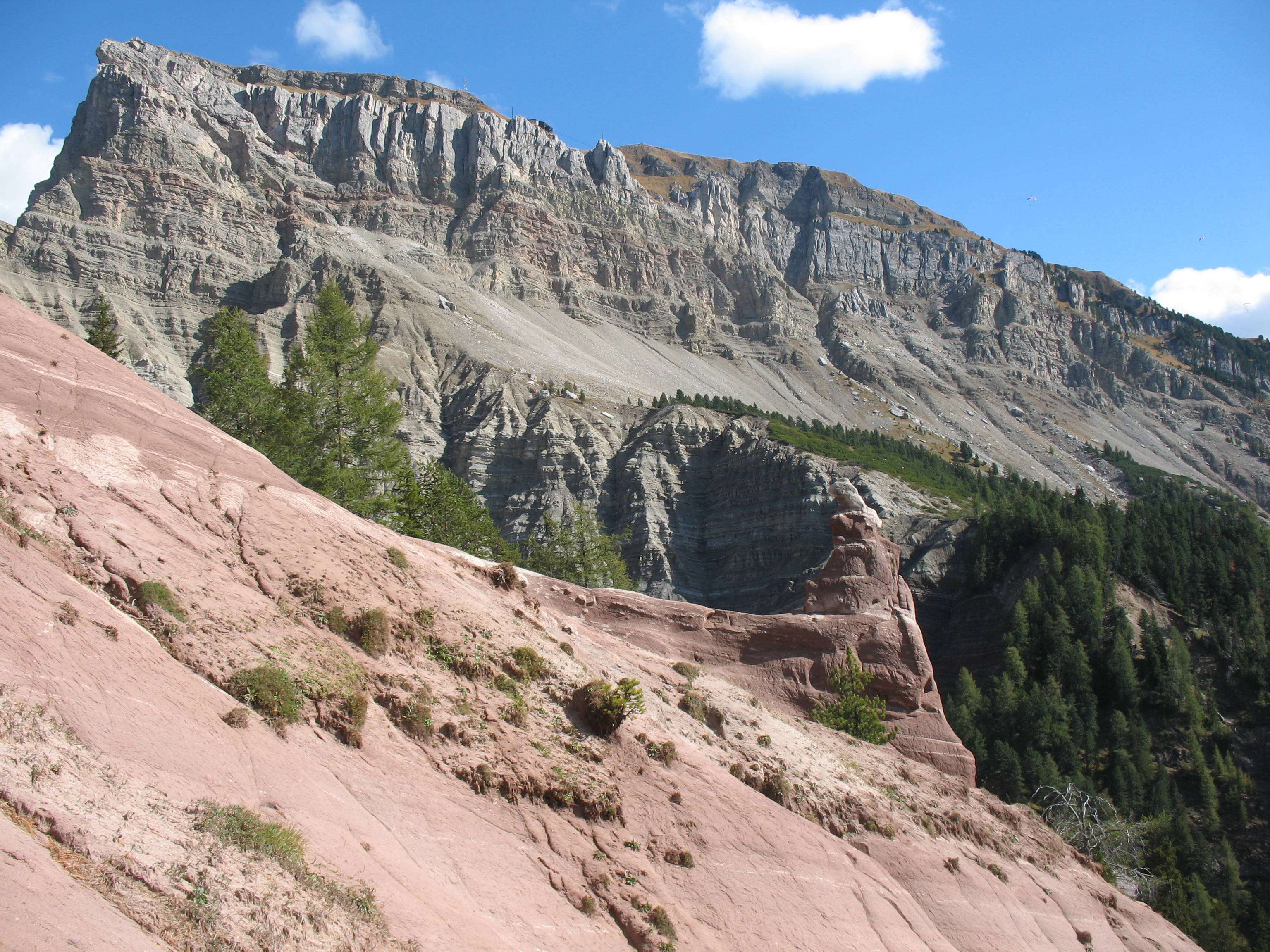 The Mount Seceda in the Geisler group, lad. Odles in the Dolomites